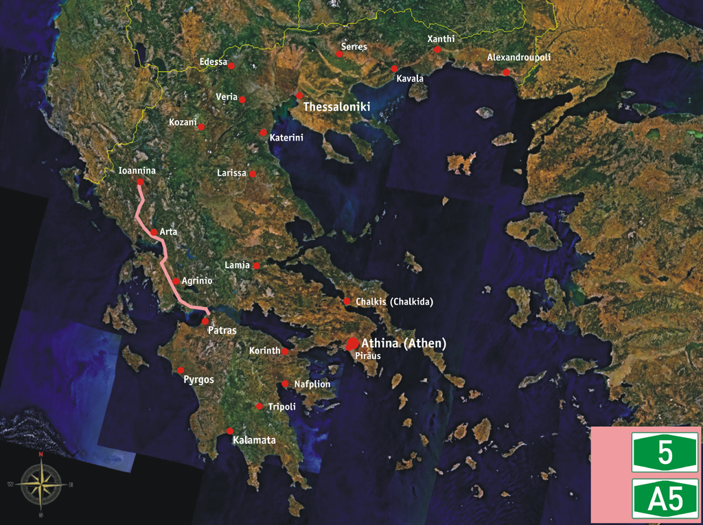 A correct version of the current file.